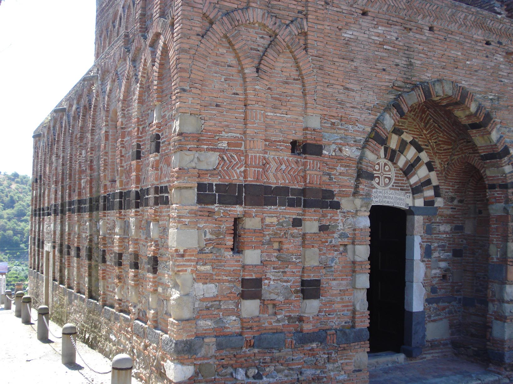 False archs (norhern and western facade)